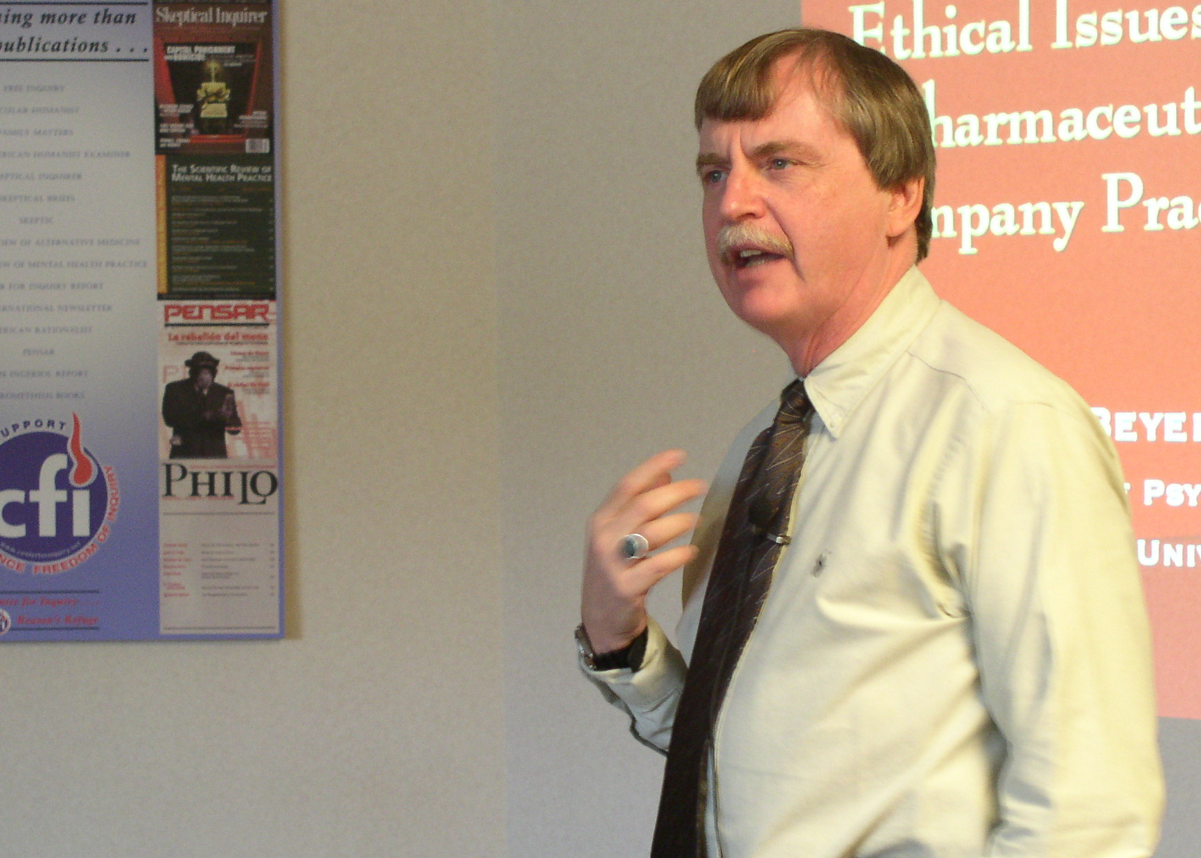 Barry Beyerstein at CFI lecture